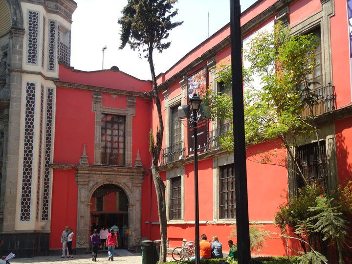 Entrance of the Museo Franz Mayer